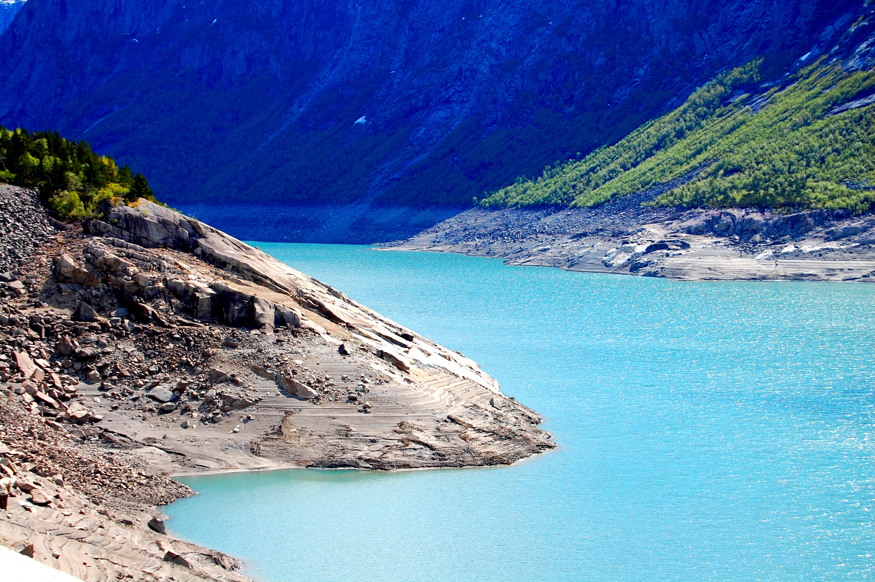 Ringedalsvatnet